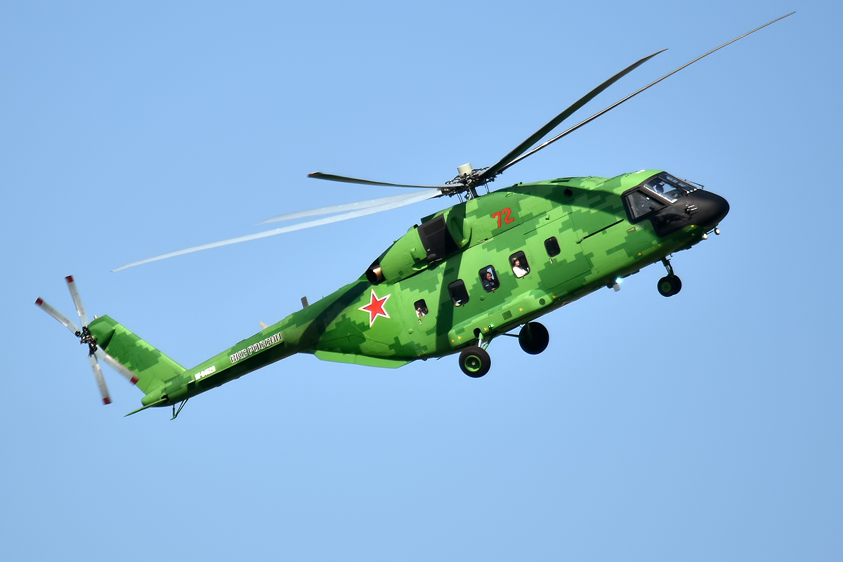 Russian Air Force, RF-04529, Russian Air Force